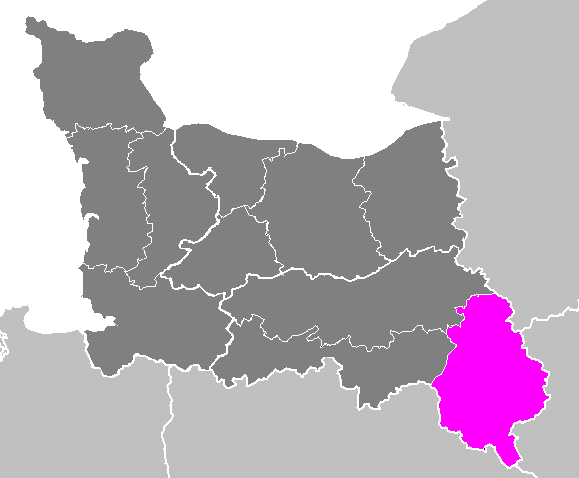 Maps of arrondissements and cantons of France: Arrondissement de Mortagne-au-Perche.PNG